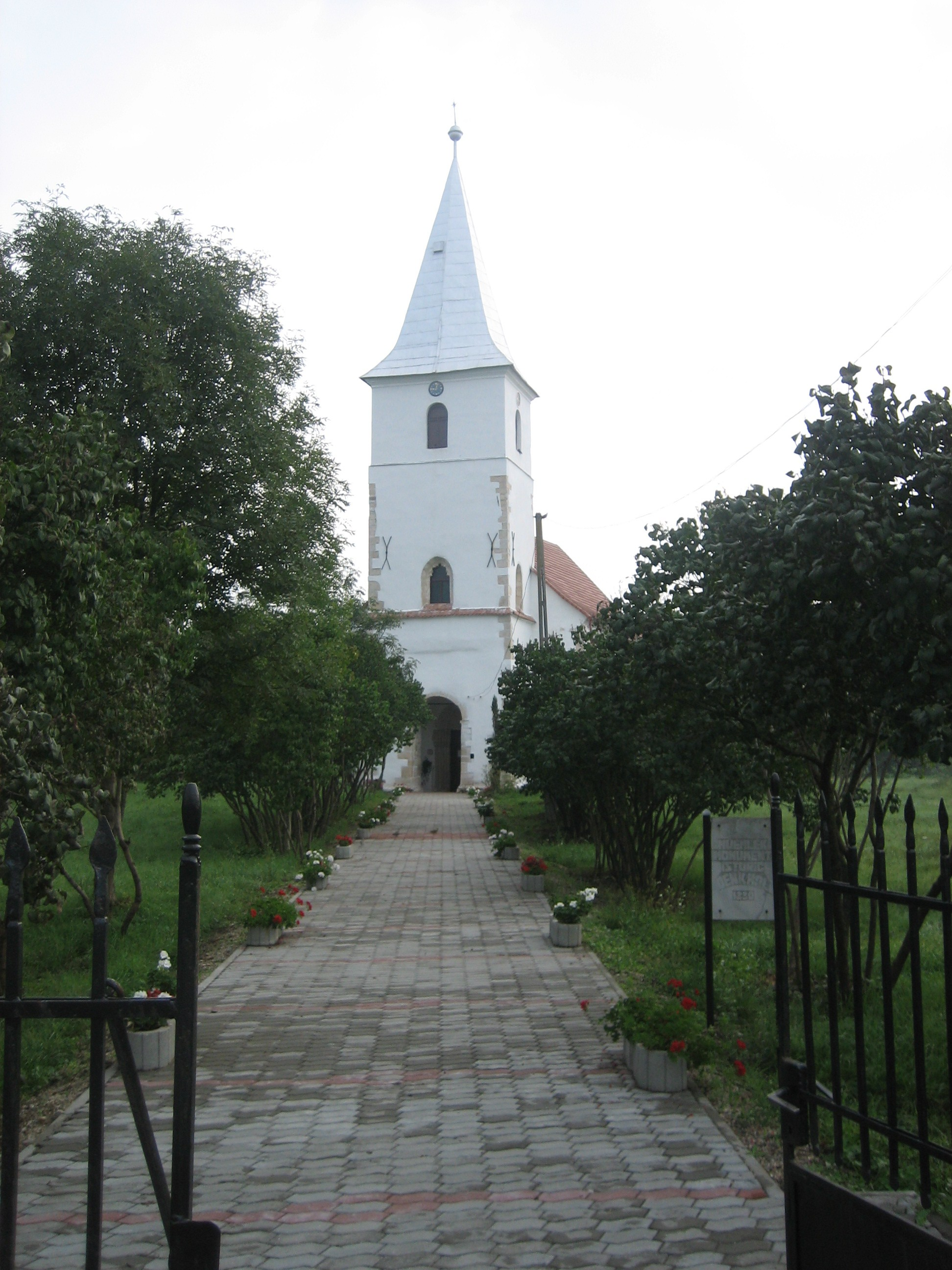 The Reformed church